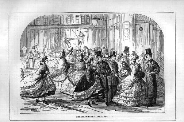 The Haymarket as the place for London prostitution